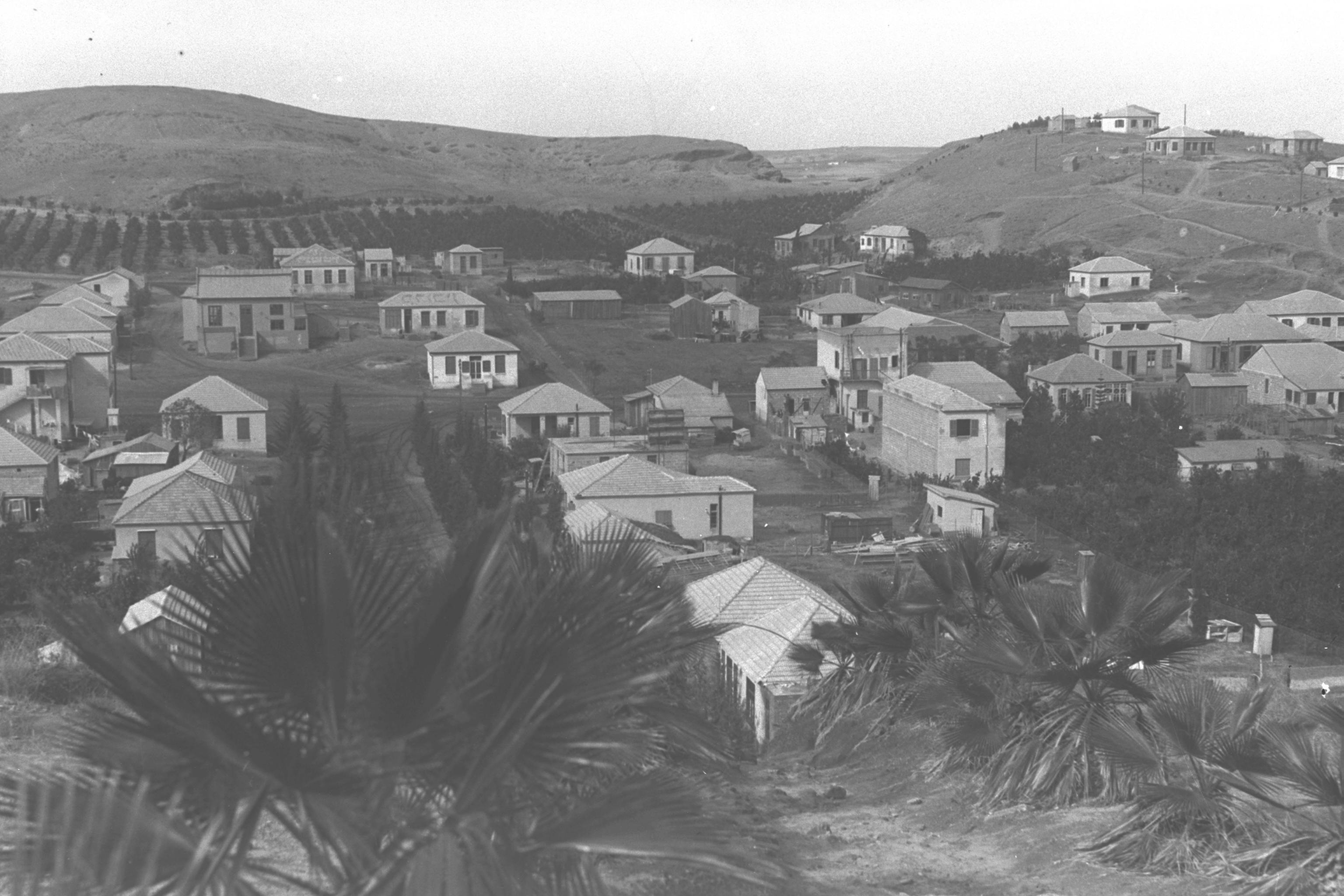 GENERAL VIEW OF BNEI BRAK NORTH OF TEL AVIV